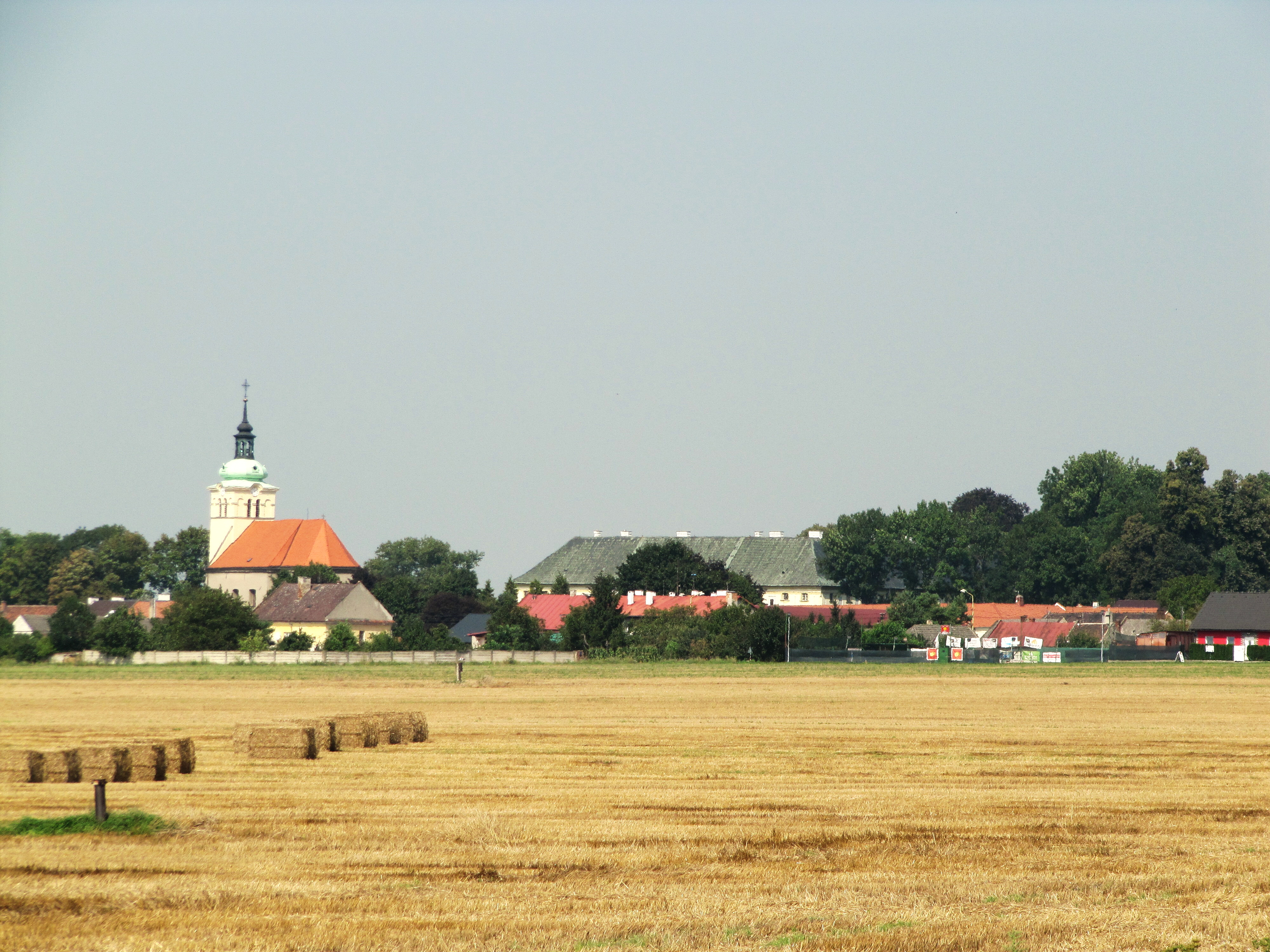 Rokytnice, Czech Republic, Přerov District. General view with church and castle. This photograph was taken within the scope of the third year of the 'Czech Municipalities Photographs' grant.